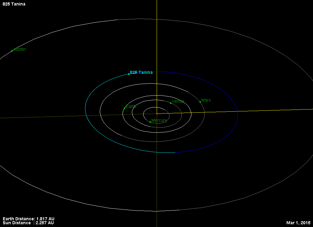 825 Tanina orbit and his position on 01 Mar 2015 (NASA Orbit Viewer applet)